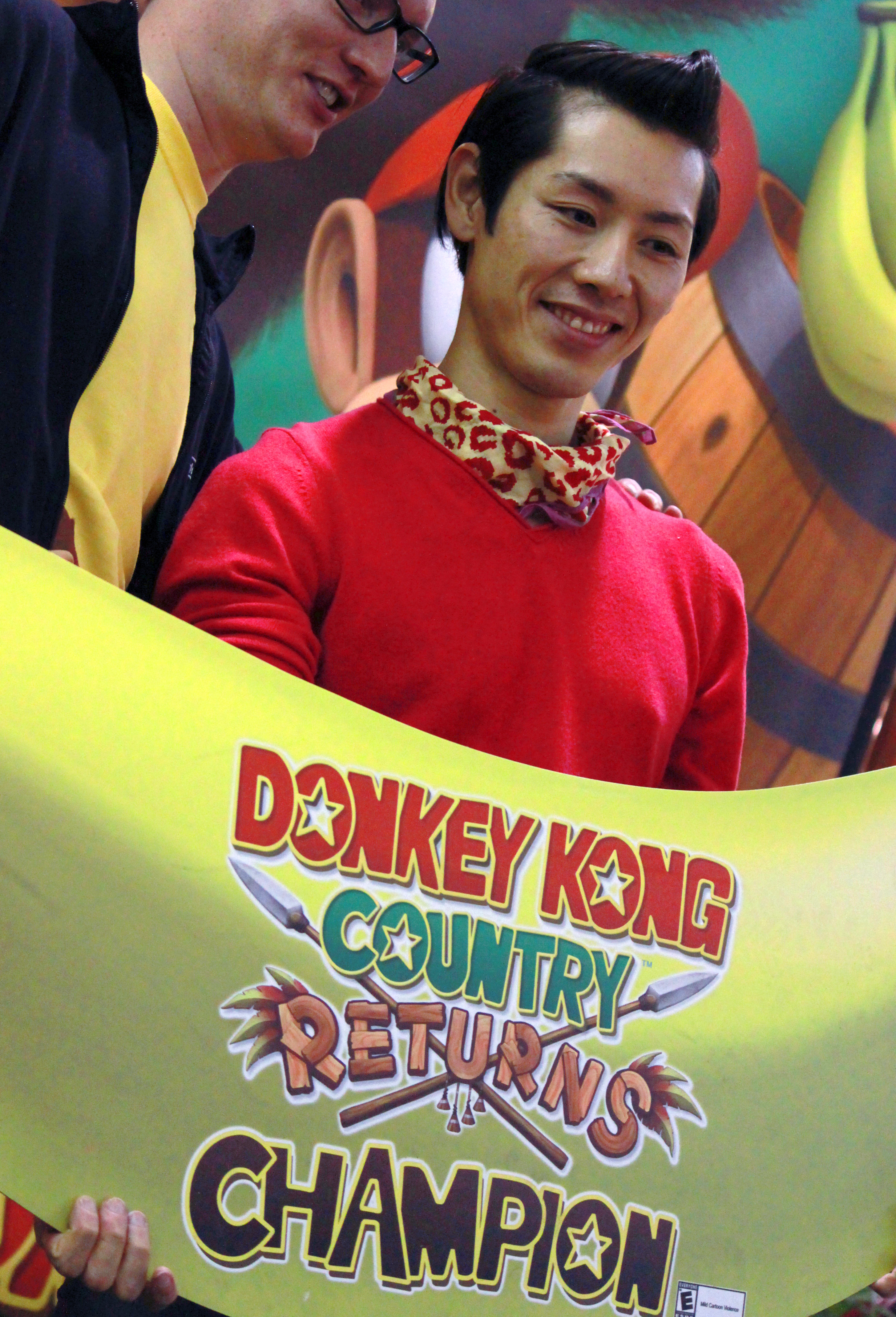 Takeru Kobayashi at the competitive eating event "Donkey Kong Country Returns Banana Eating Challenge with Takeru Kobayashi", RioCan Yonge Eglinton Centre, Toronto.